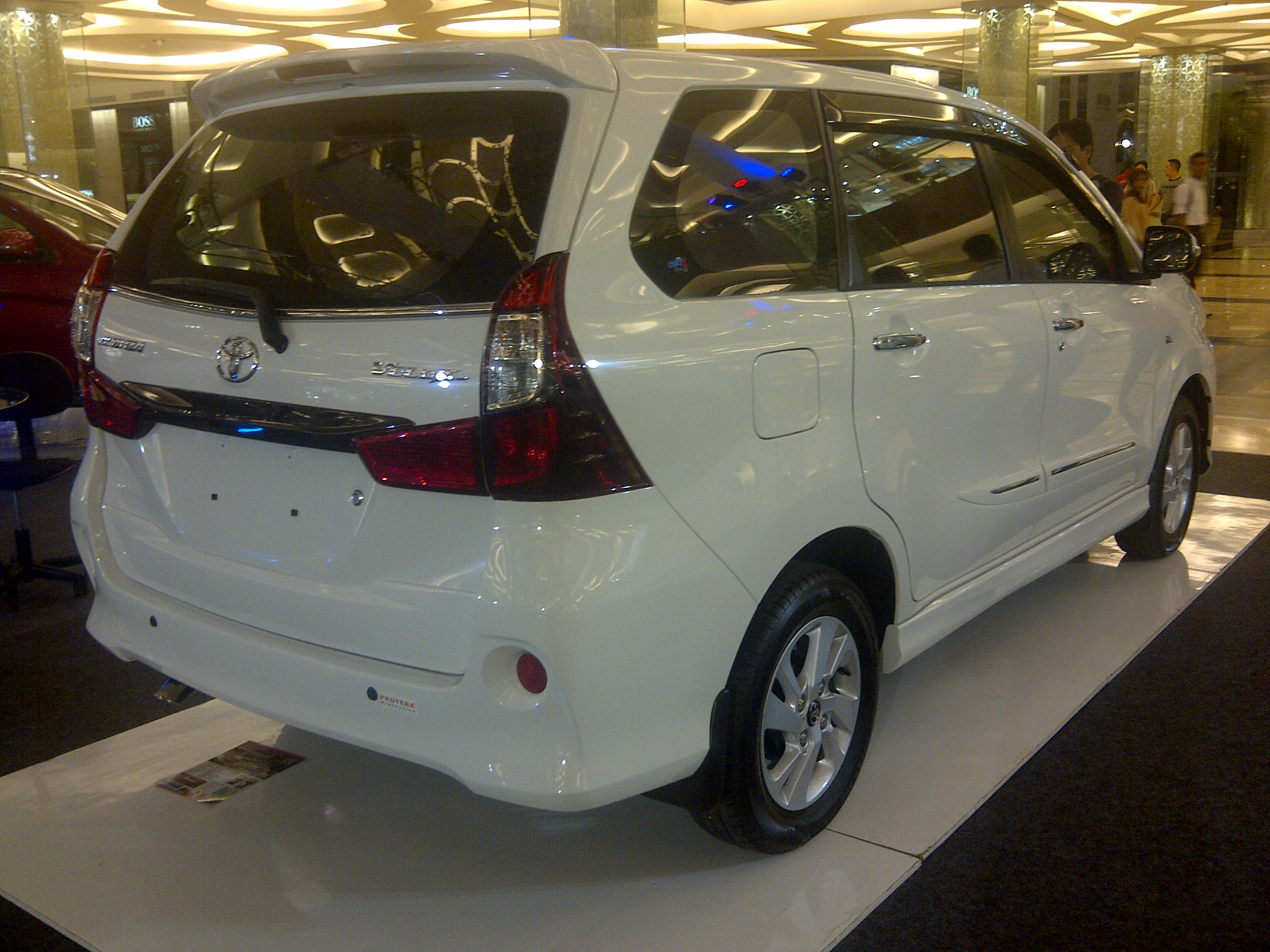 2015 Toyota Avanza Veloz 1.3 MT displayed in a mall in Indonesia